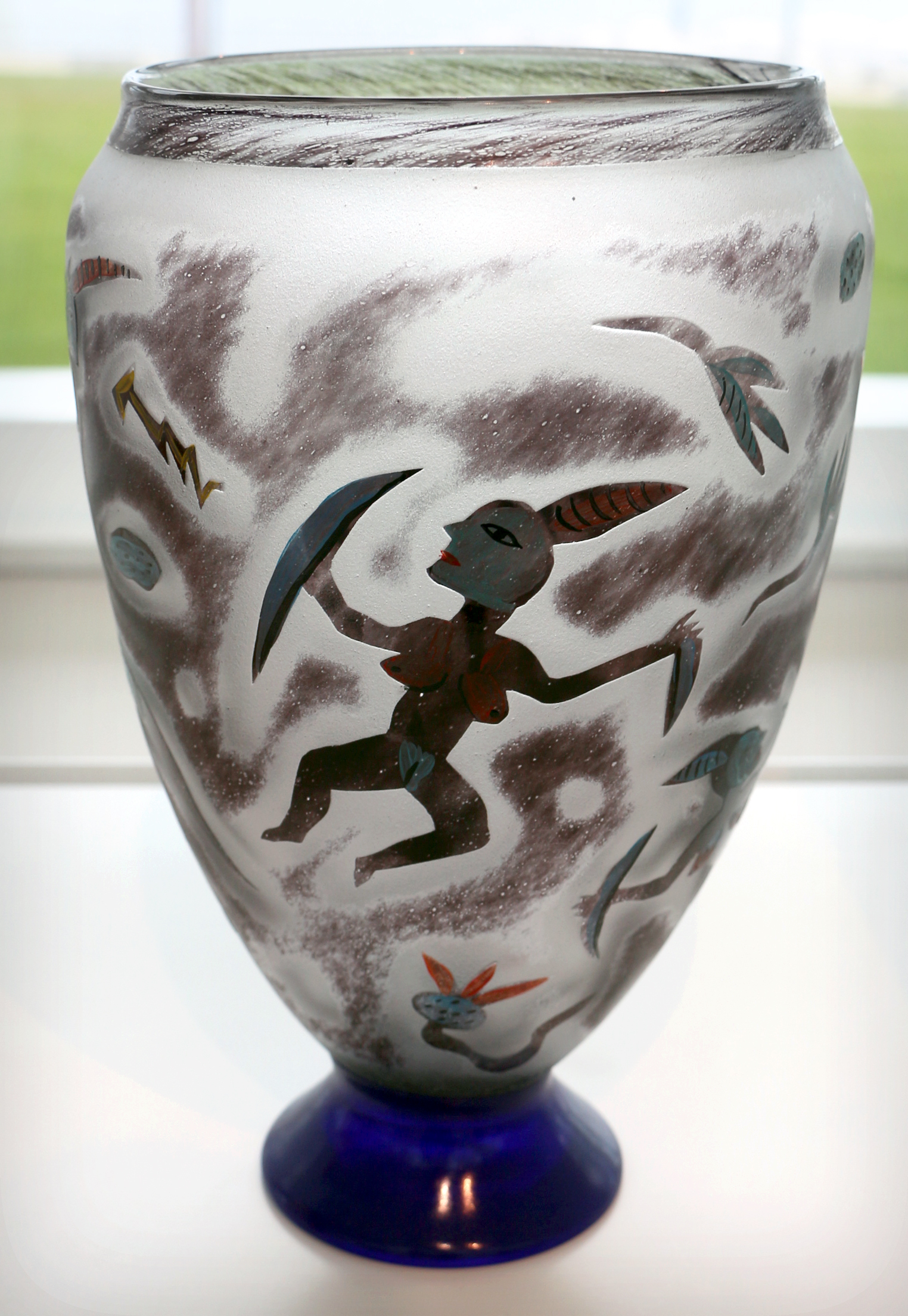 Glassware in the Milwaukee Art Museum